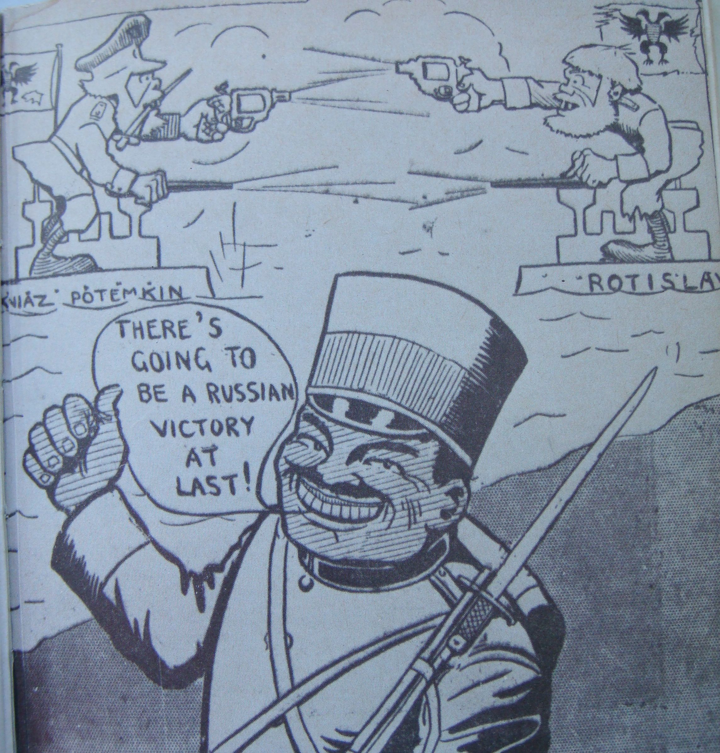 English newspaper's cartoon. Japanese militaryman makes jokes on russians fighting each other